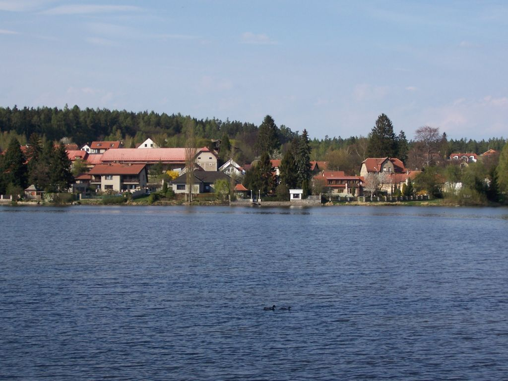 Jevany